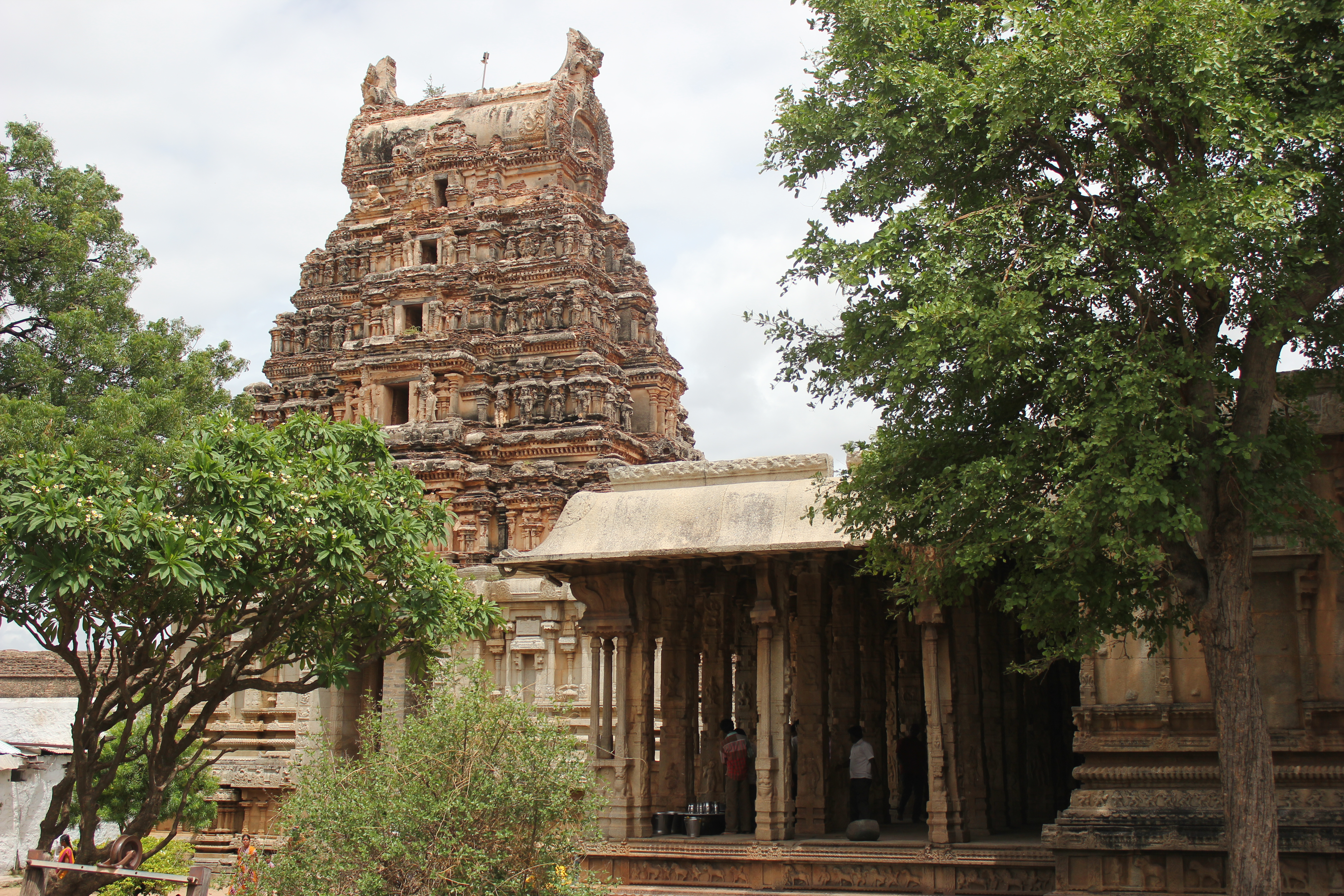 This photograph of gopura (tower) over dwara (entrance) and a mantapa (hall) in the Raghunatha temple, built by King Achyuta Raya (1529-1542 AD) was taken by me at Hampi, a UNESCO world heritage site in Bellary district, Karnataka state, India.